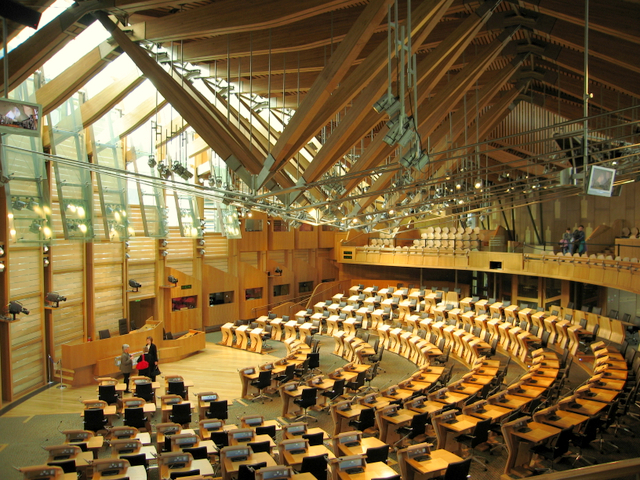 The main chamber: the Scottish Parliament